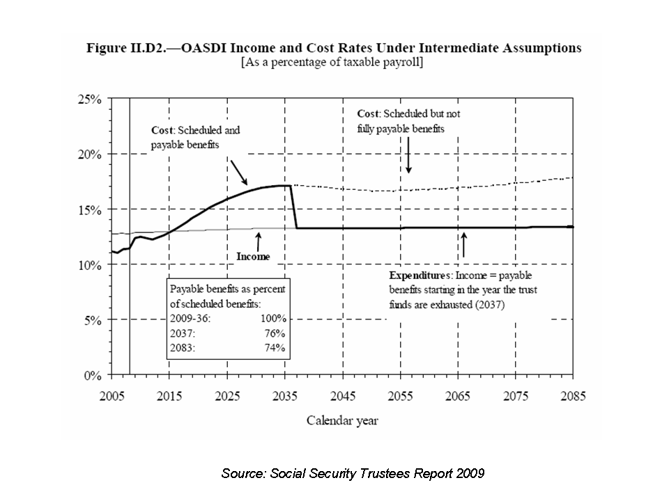 OASDI INcome and Cost Rates Under Intermed Assumption Explanations See discussion page for additional explanation. Social Security reform proposals continue to circulate with some urgency, due to long-term funding challenges regarding the program and the overall financial circumstances of the federal government. While the nuances of the Social Security program are complex and subject to actuarial estimation, there are certain key points to understand under current law, even if no reforms are implemented:[1] Payments are forecast to be cut to 76% of their scheduled amounts in 2037. This declines to 74% by 2081. Social Security will be there, but without reform at these reduced amounts. Social Security is a mandatory program, funded by a dedicated payroll tax, which legally must be used first to pay Social Security obligations. Between 2016 and 2037, a total of $3.7 trillion of government revenue from sources other than payroll taxes must be diverted to pay retirees. This sum represents the Social Security Trust Fund, amounts the government has borrowed from payroll tax surpluses and spent over the years for other purposes. This is a funding challenge for the government overall, not just Social Security. References ↑ 2009 Trustees Report